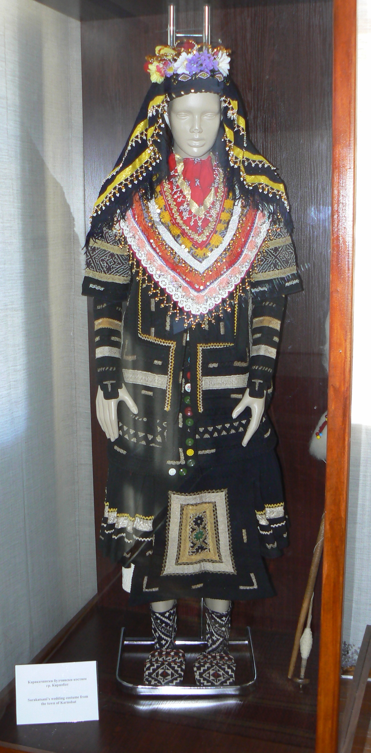 Traditional sarakatsani female wedding costume from Karnobat, Burgas ethnographic museum